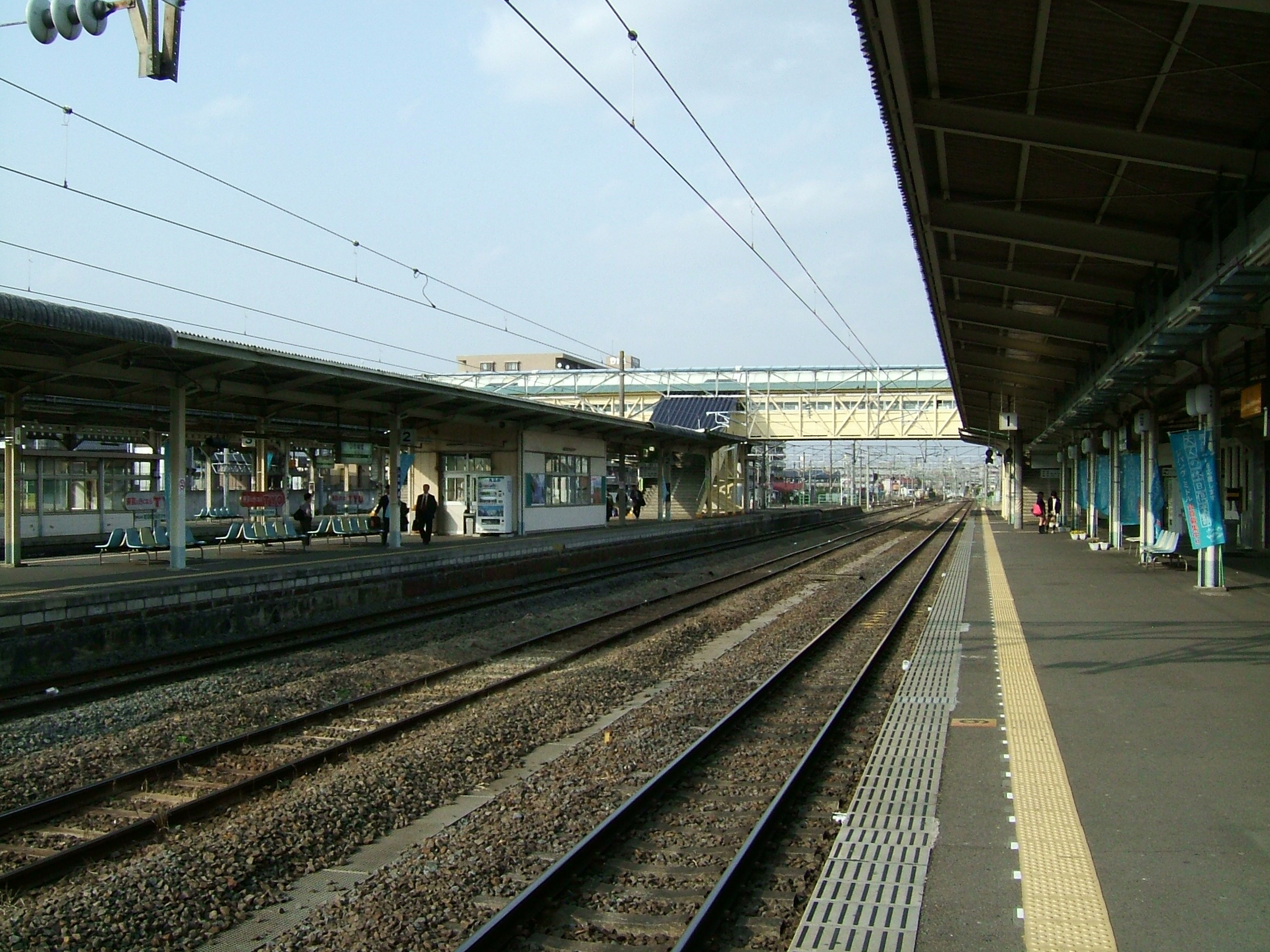 Tohoku Main Line Iwanuma Station platform